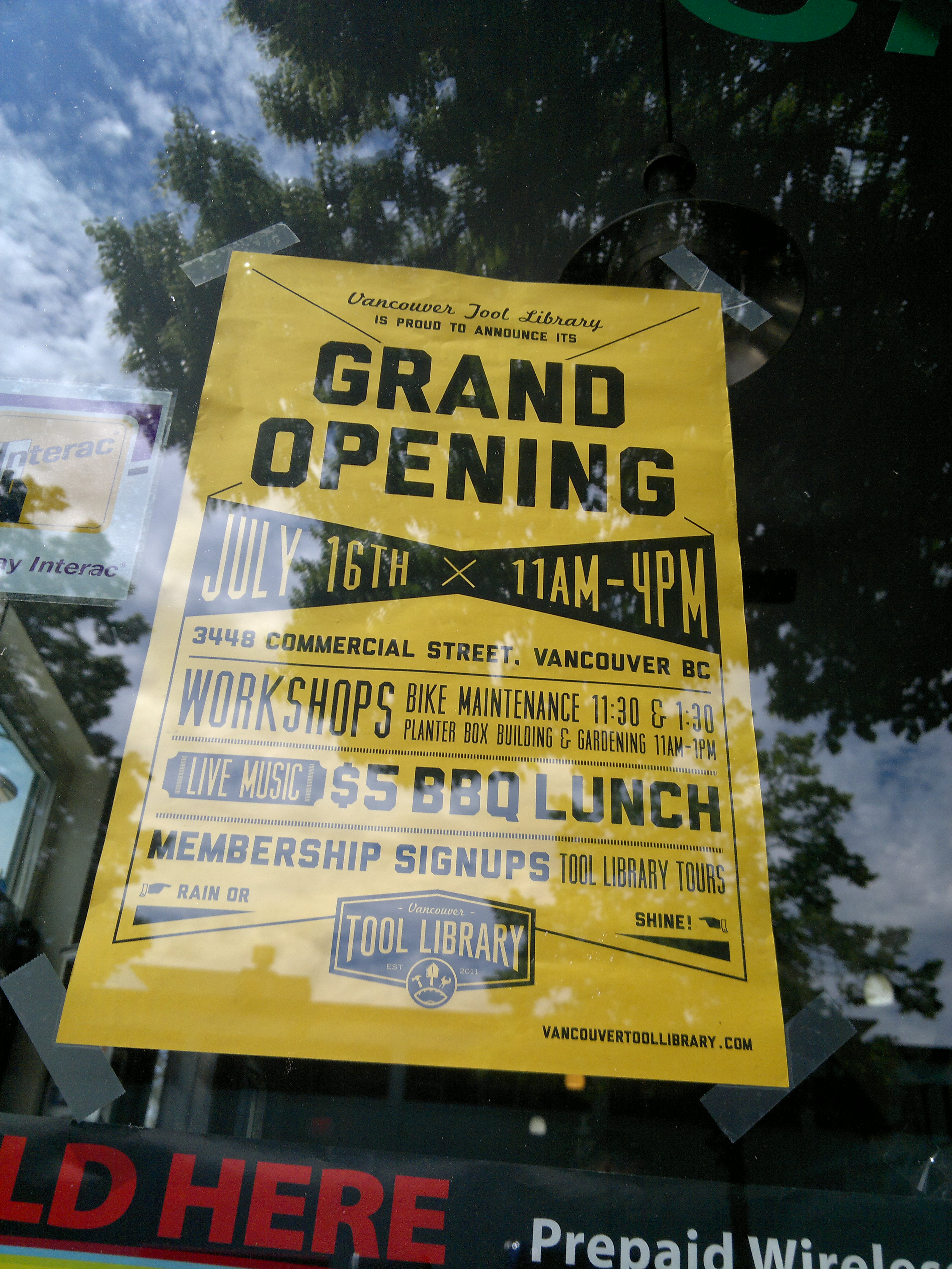 Vancouver Tool Library Grand Opening Poster at Gloria's